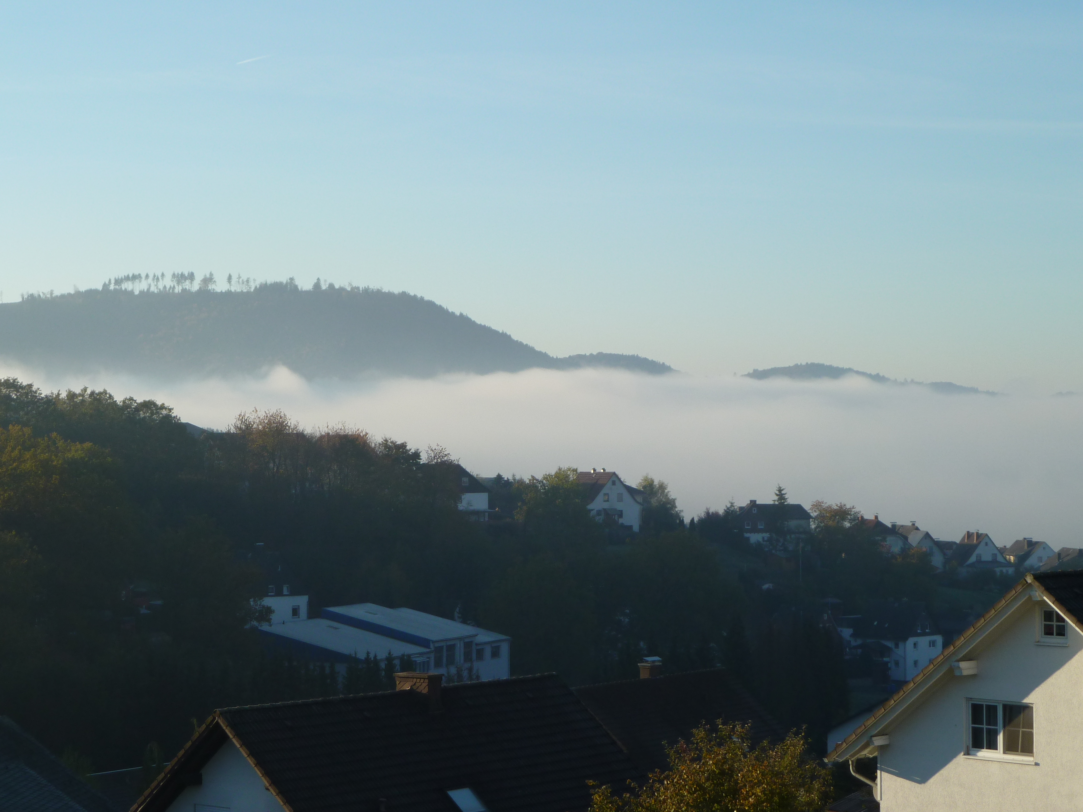 Eschenburg mountain